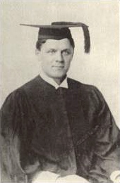 Karlis Ulmanis receiving his B.S. degree (pre-1913).